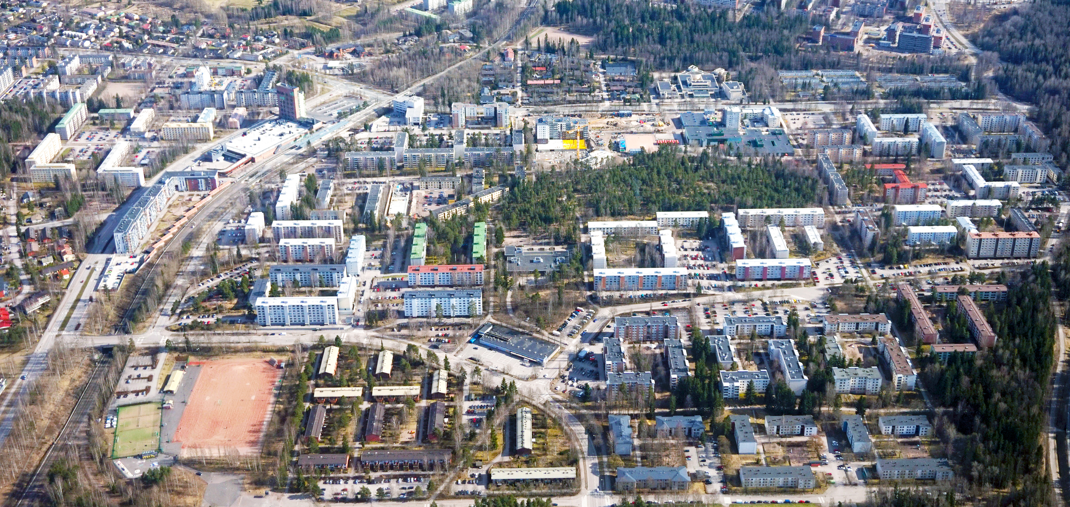 Martinlaakso district, Vantaa.This photograph was taken with a Sony ILCE-5000